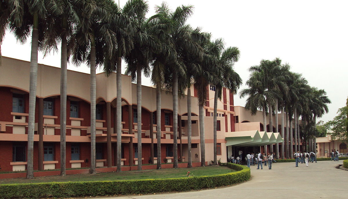 Campion Secondary, Bhopal